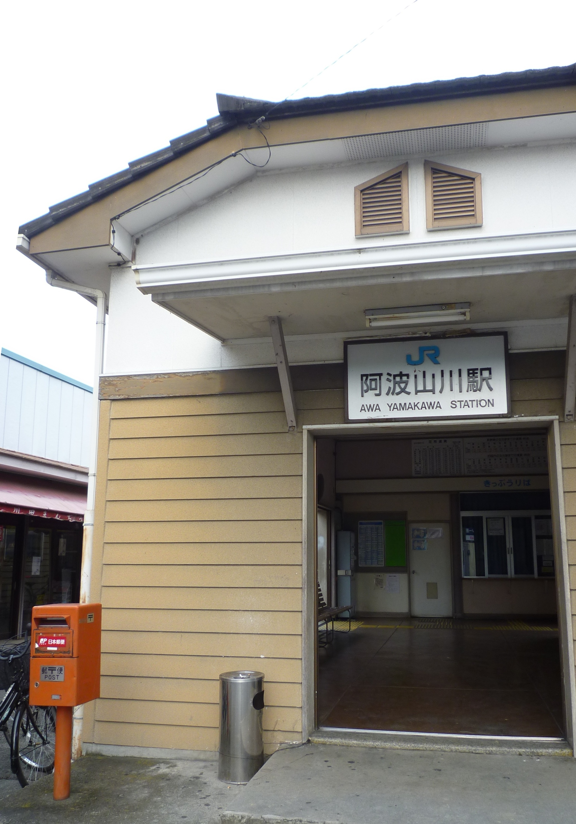 Awa-Yamakawa Station (阿波山川駅 Awa-Yamakawa-eki) is a train station in Yoshinogawa, Tokushima Prefecture, Japan.